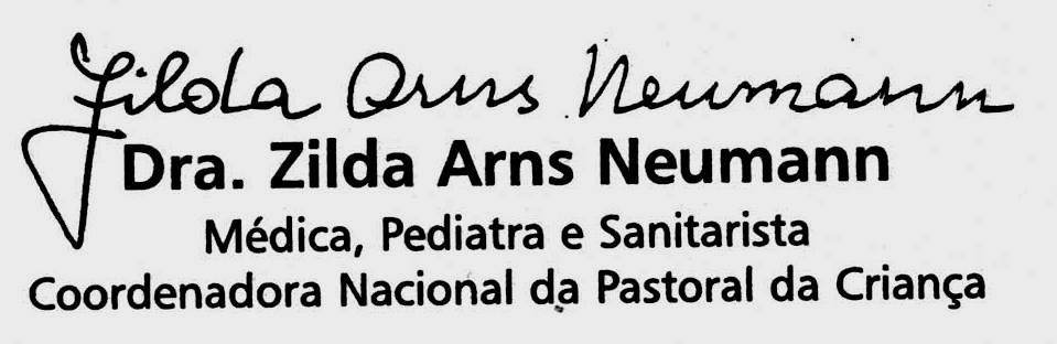 Zilda Arns signature.